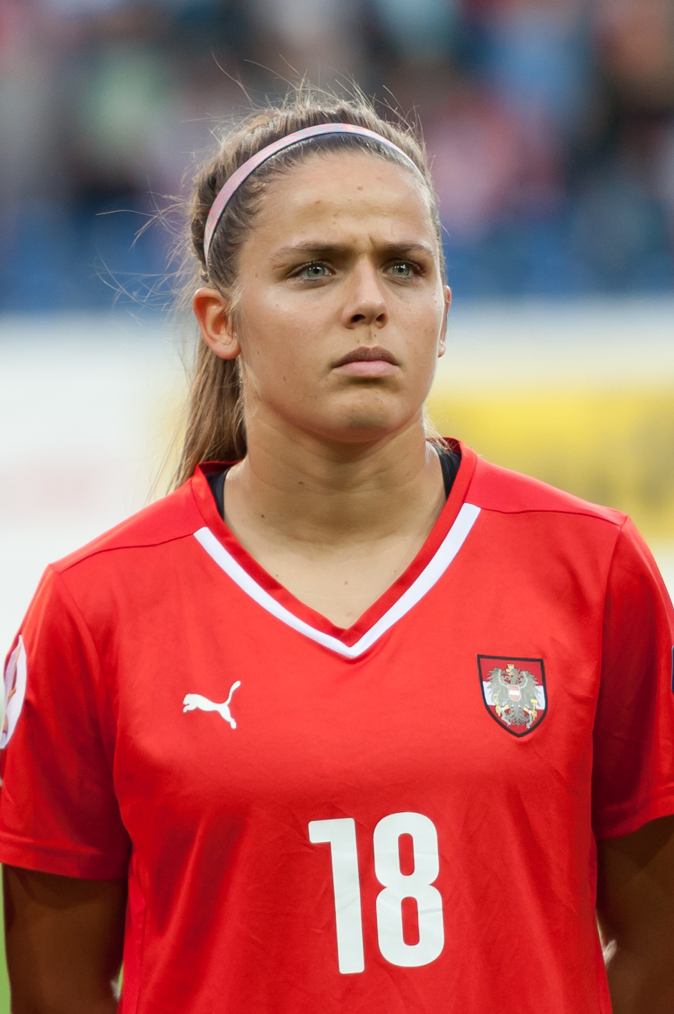 Women's Euro Qualification Austria vs. Wales, 2015-09-22, St. Pölten, Lower Austria